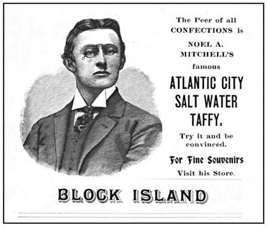 Ad created by Noel Mitchell used to sell Taffy